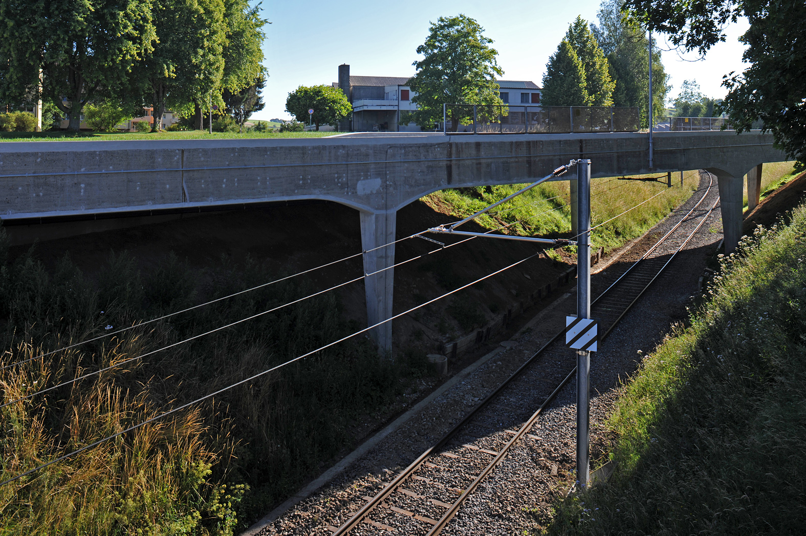 Bridge in the Luzernstrasse in Huttwil by Robert Maillart, built 1935; Berne, Switzerland.